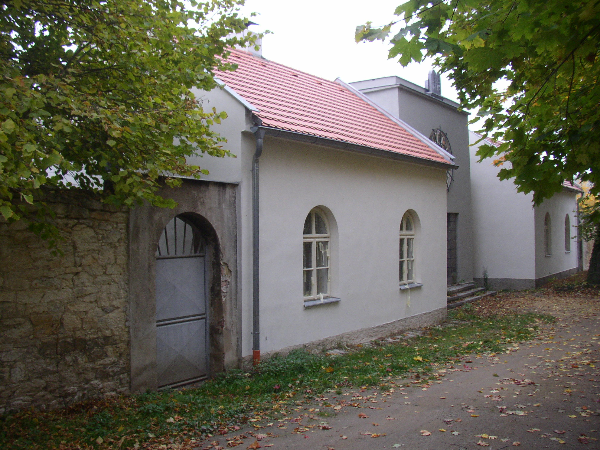 Defunct Jewish cemetery in Slaný, Kladno District, Central Bohemian Region, Czech Republic. Established 1881, present ceremonial hall built 1931-33. Front side as seen from SW.